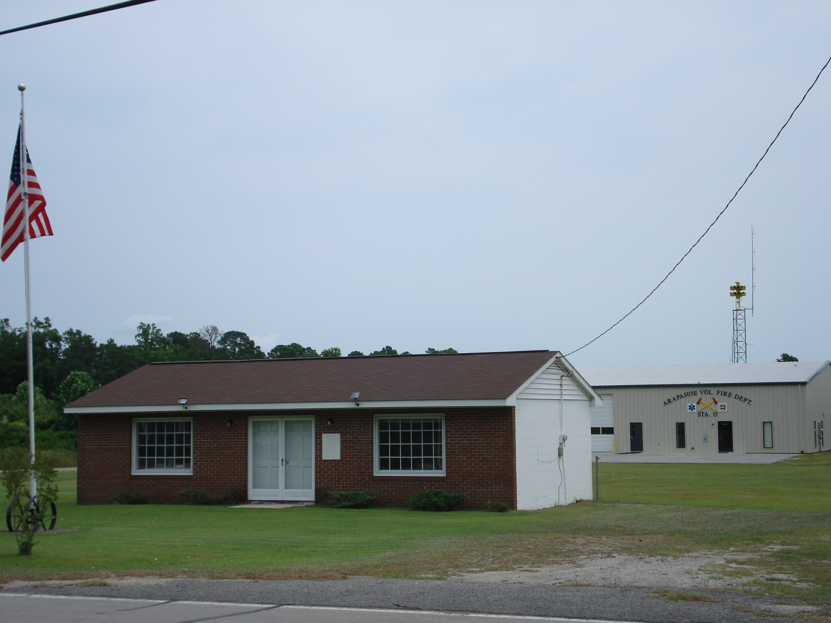 Town Hall and Fire Building of Arapahoe, North Carolina.